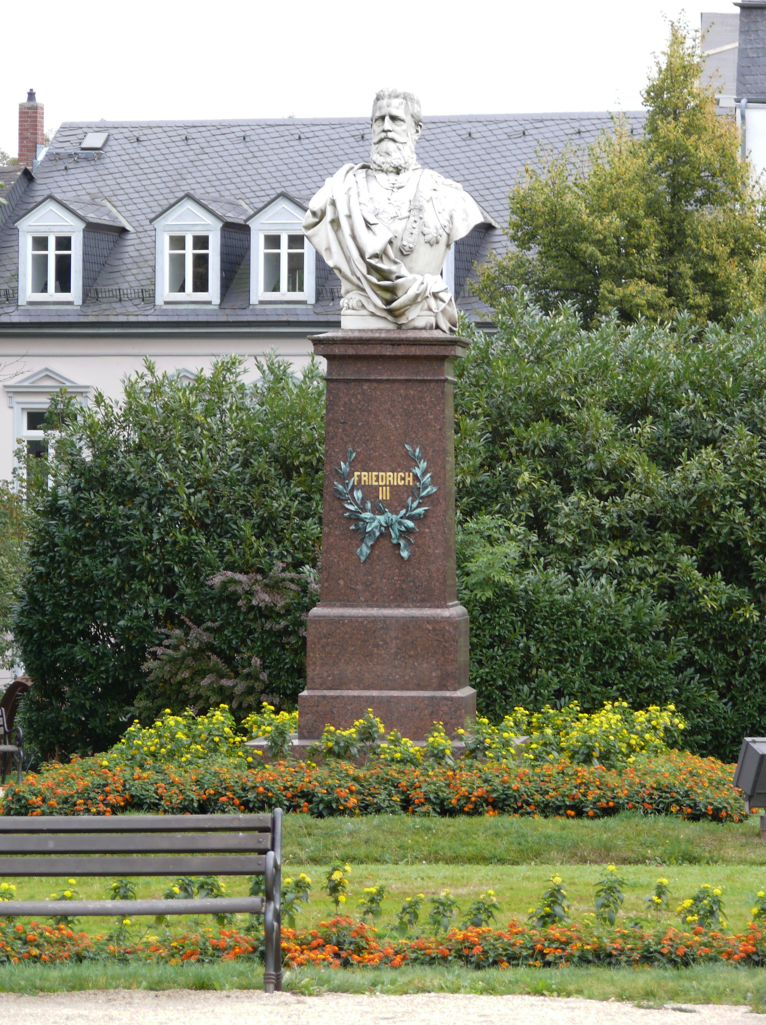 "Kaiser Friedrich III.-Denkmal" (Emperor... Memorial) at "Kurpark" in Bad Homburg, Hesse, Germany.